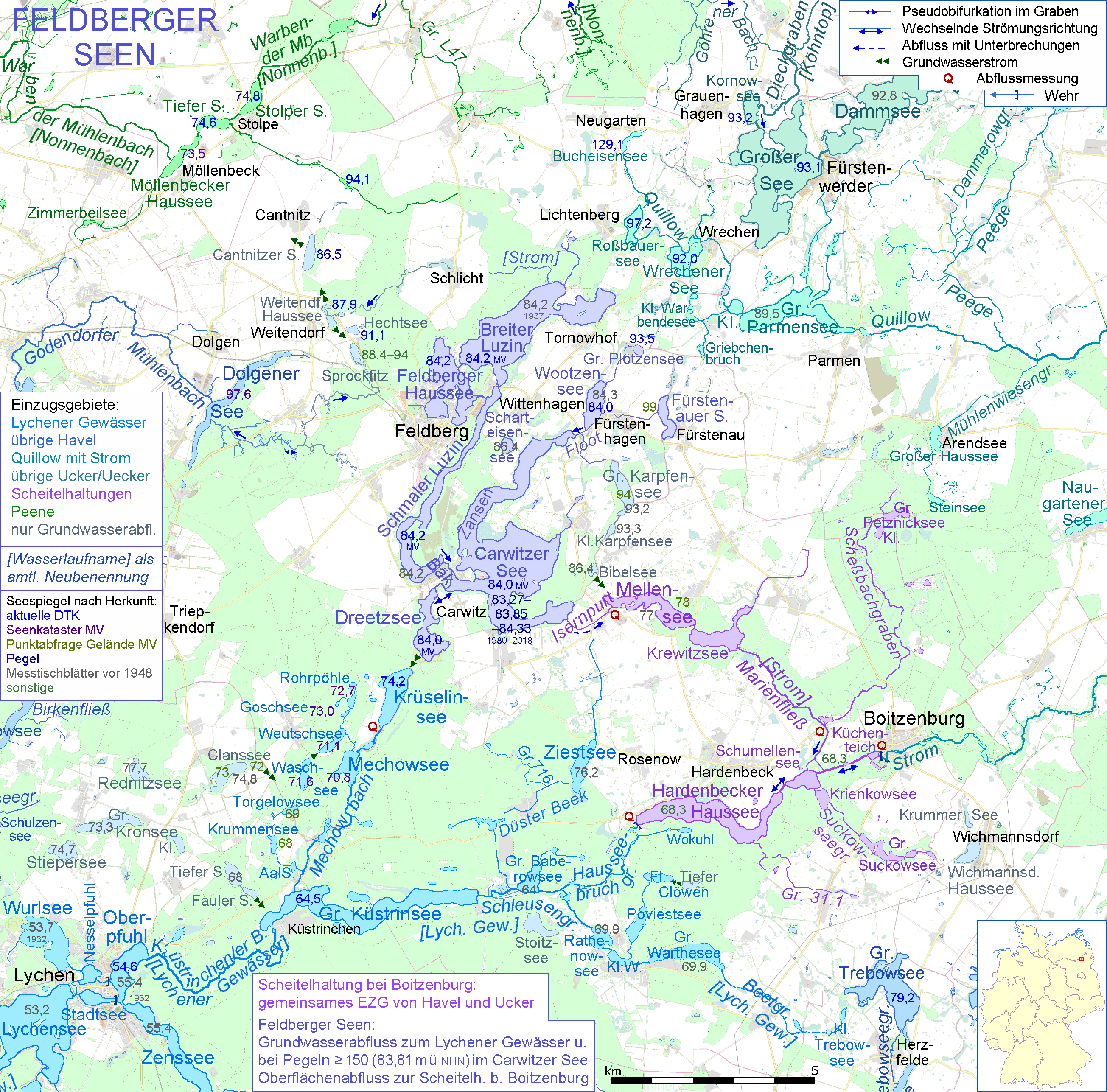 Map of the Lakes in the municipality of Feldberger Seenlandschaft; names differring from those written in topographic maps haved been collected from water specialists of the maintaining institutions. This map may be incomplete, and may contain errors. Don't rely solely on it for navigation.